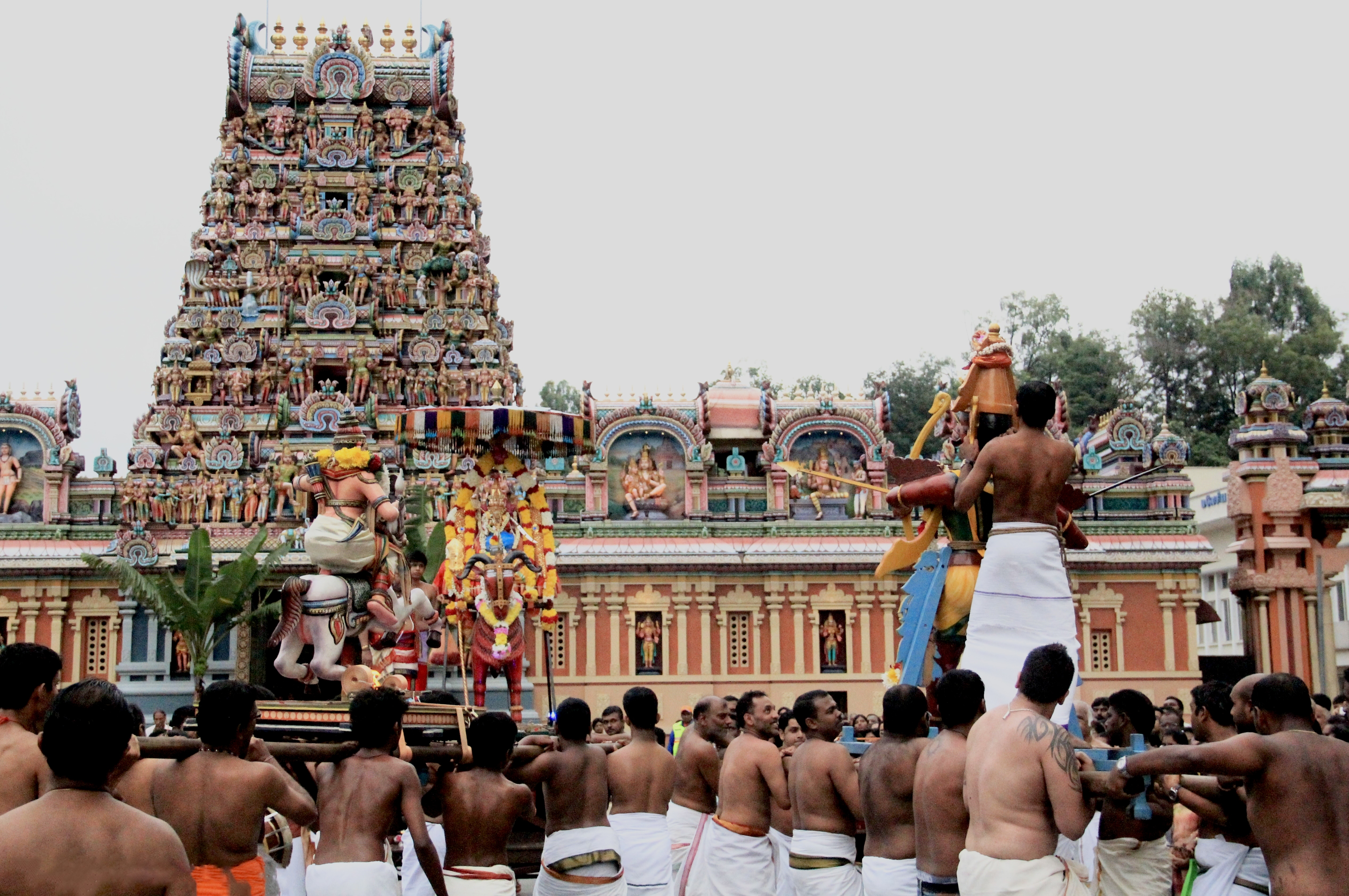 Soorasamhaaram being reenacted at Sri Kandaswamy Kovil in 2012